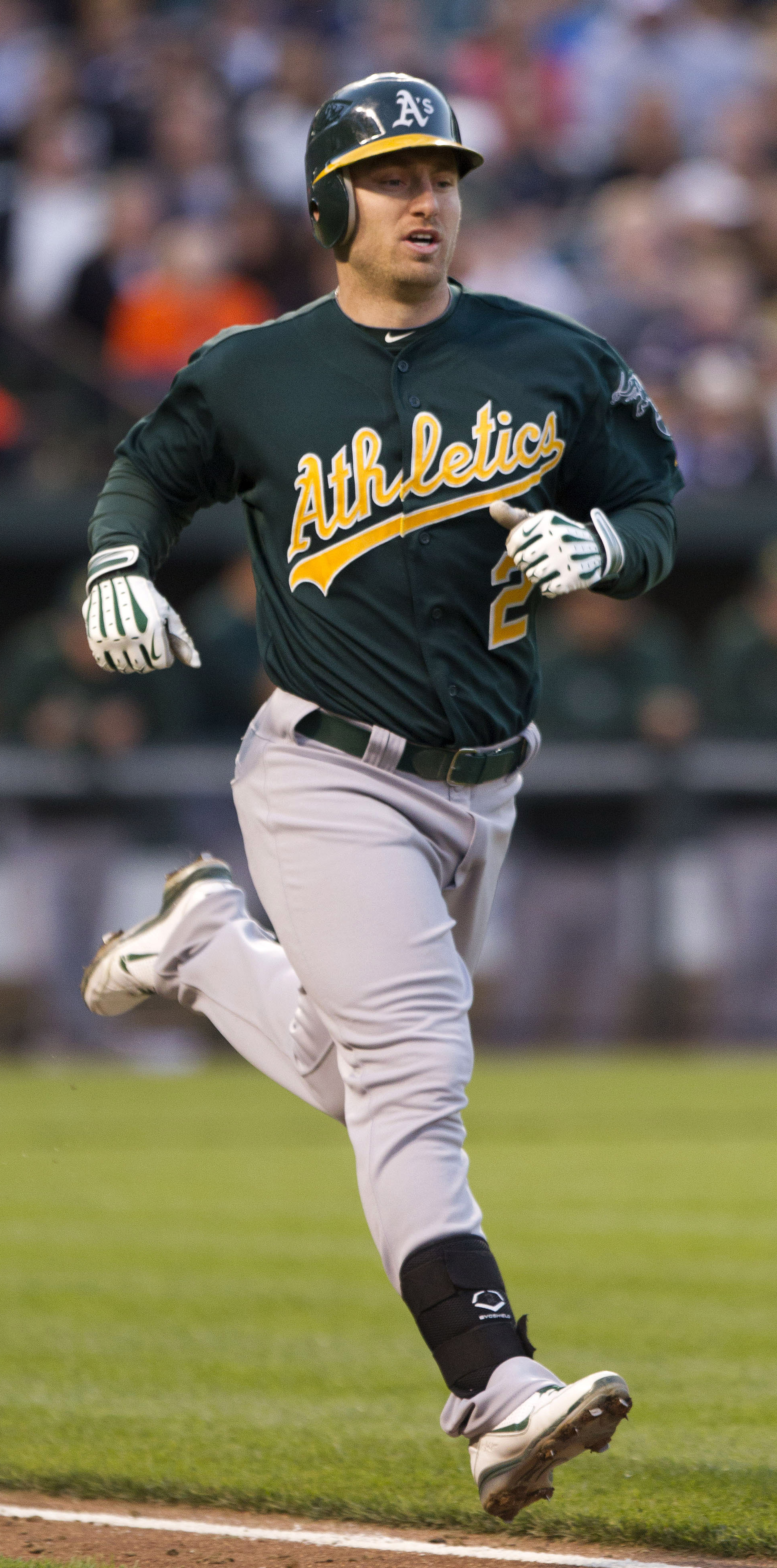 Athletics at Orioles April 27, 2012